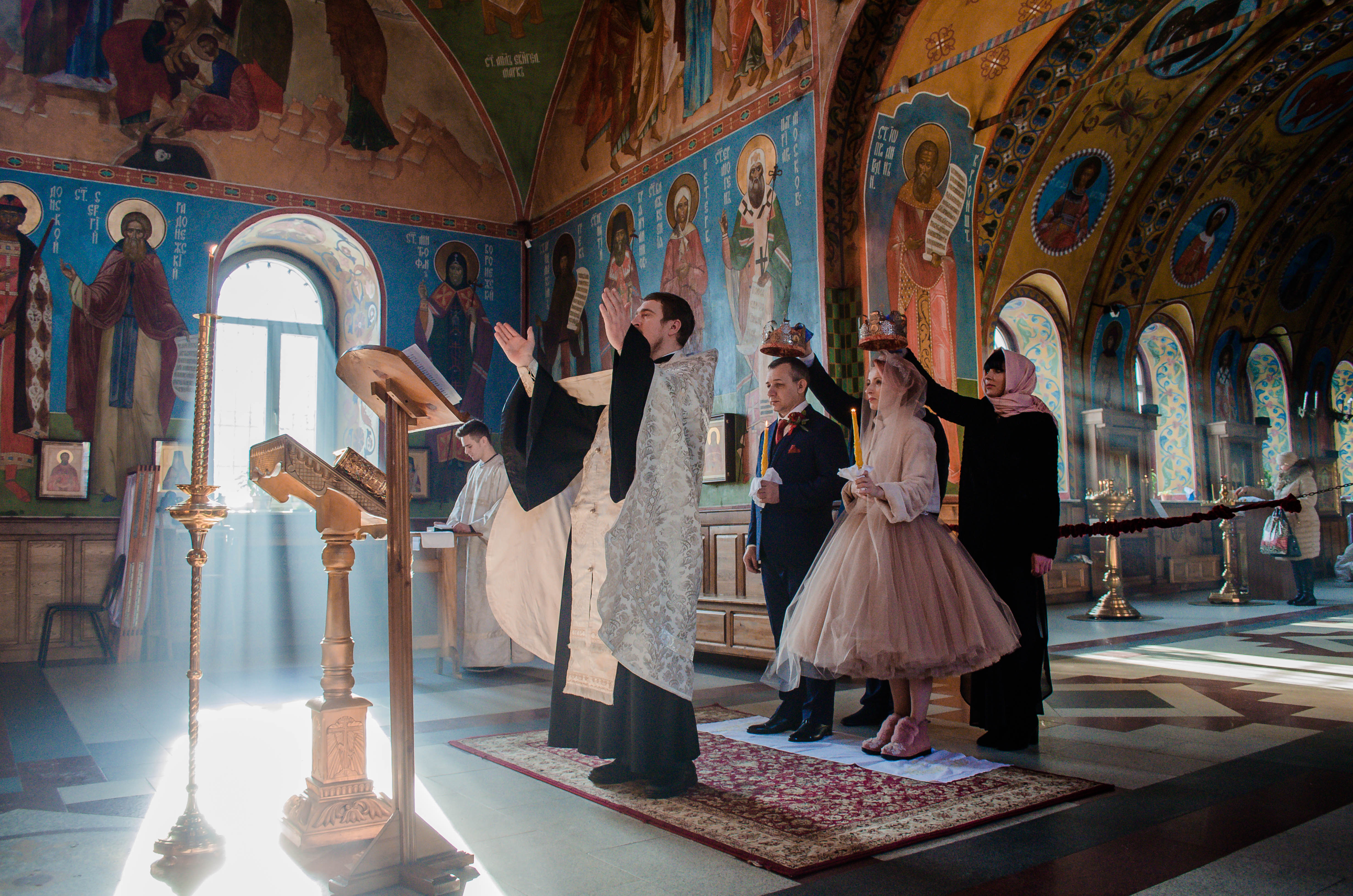 A Christian, Russian Orthodox, wedding ceremony in Church of the Dormition in Voronezh, Voronezh Urban Okrug, Voronezh Oblast, Russia. This photo has been taken in the country: Russia